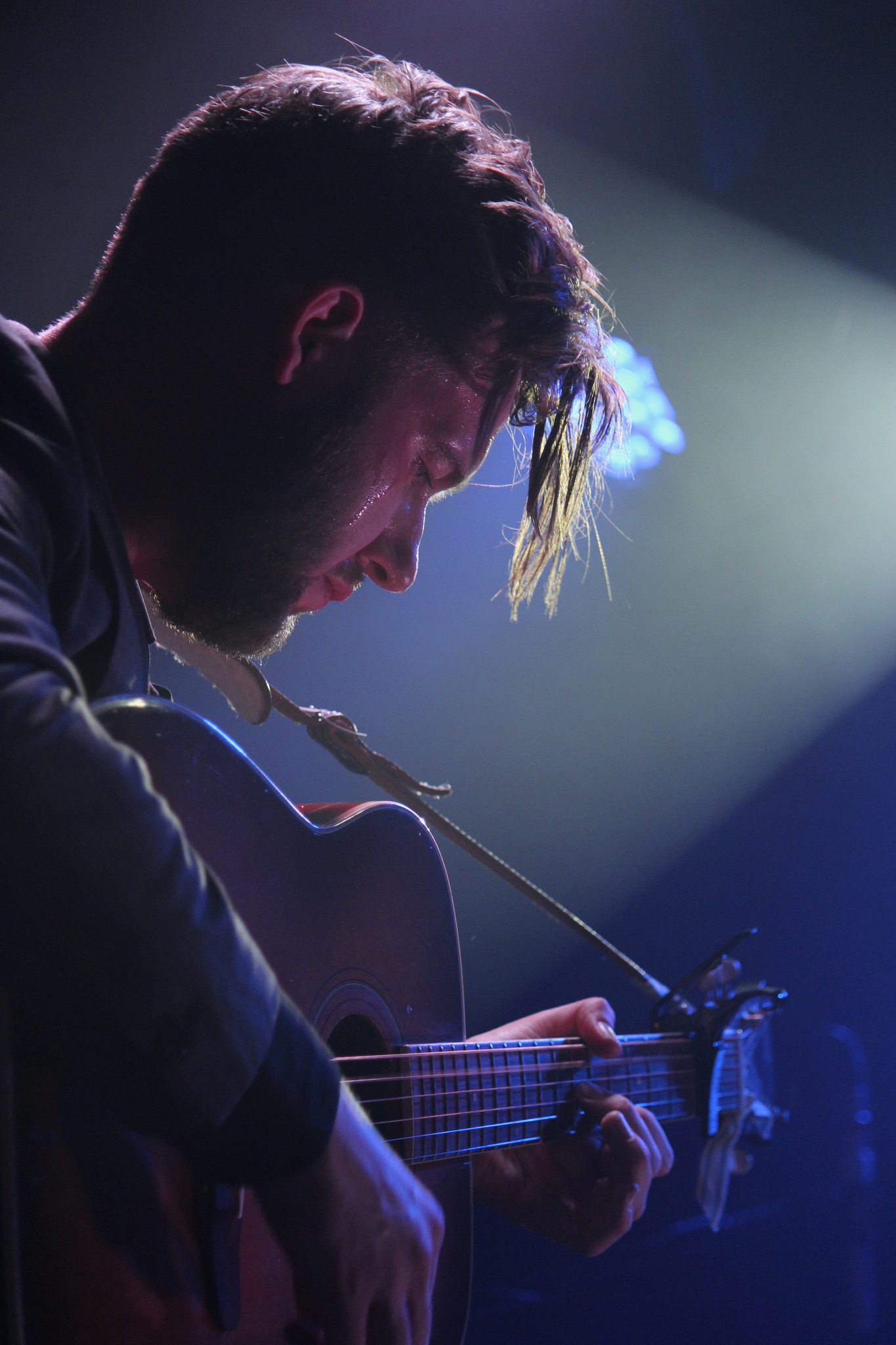 Musician Liam Frost performing at Manchester Sound Control on 20th January 2014. Image © Emma Farrer 2014 and used with her permission.